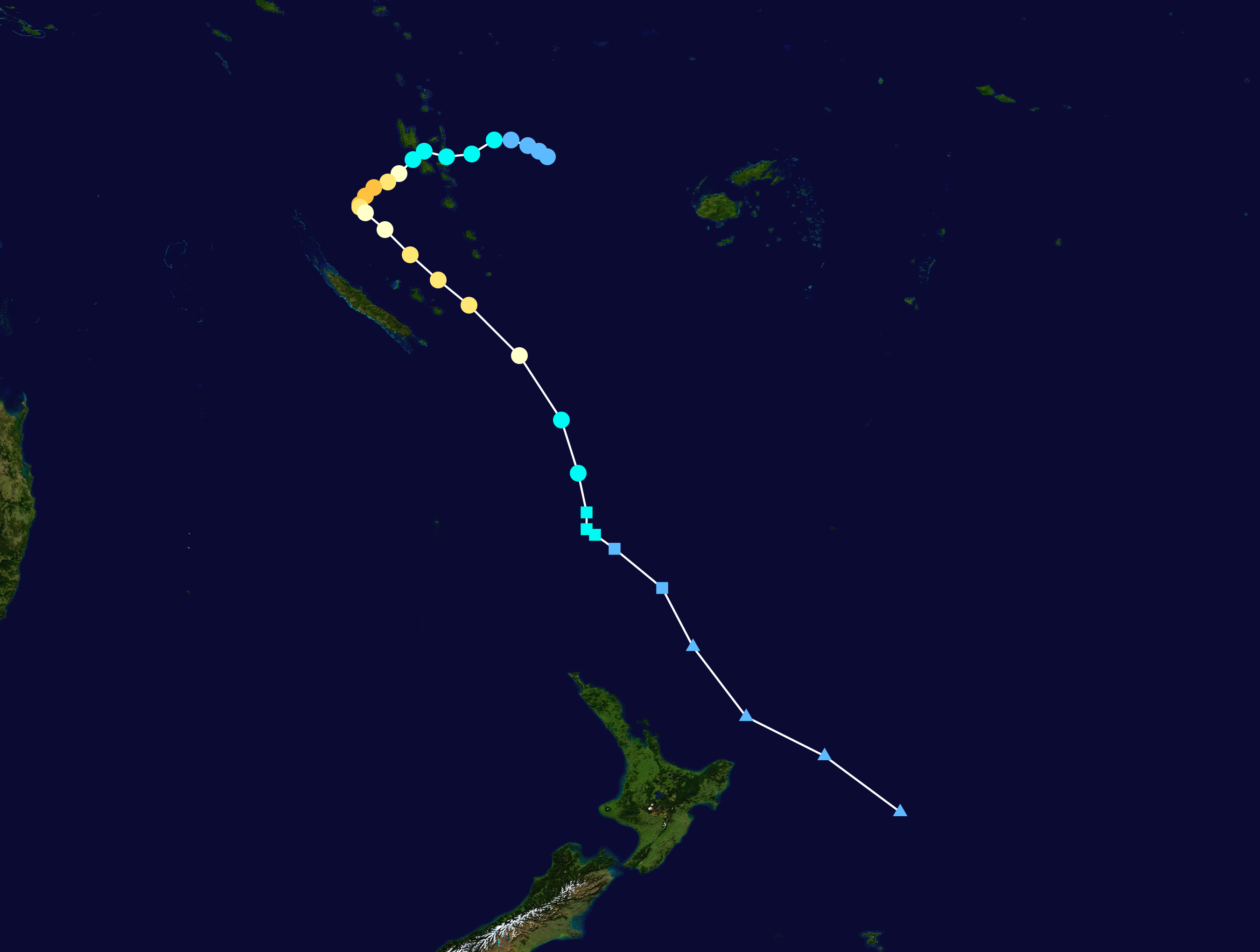 Track map of Severe Tropical Cyclone Hola of the 2017-18 South Pacific cyclone season. The points show the location of the storm at 6-hour intervals. The colour represents the storm's maximum sustained wind speeds as classified in the Saffir–Simpson scale (see below), and the shape of the data points represent the nature of the storm, according to the legend below. Saffir–Simpson scale Tropical depression≤38 mph≤62 km/h Category 3111–129 mph178–208 km/h Tropical storm39–73 mph63–118 km/h Category 4130–156 mph209–251 km/h Category 174–95 mph119–153 km/h Category 5≥157 mph≥252 km/h Category 296–110 mph154–177 km/h Unknown Storm type Tropical cyclone Subtropical cyclone Extratropical cyclone / Remnant low / Tropical disturbance / Monsoon depression